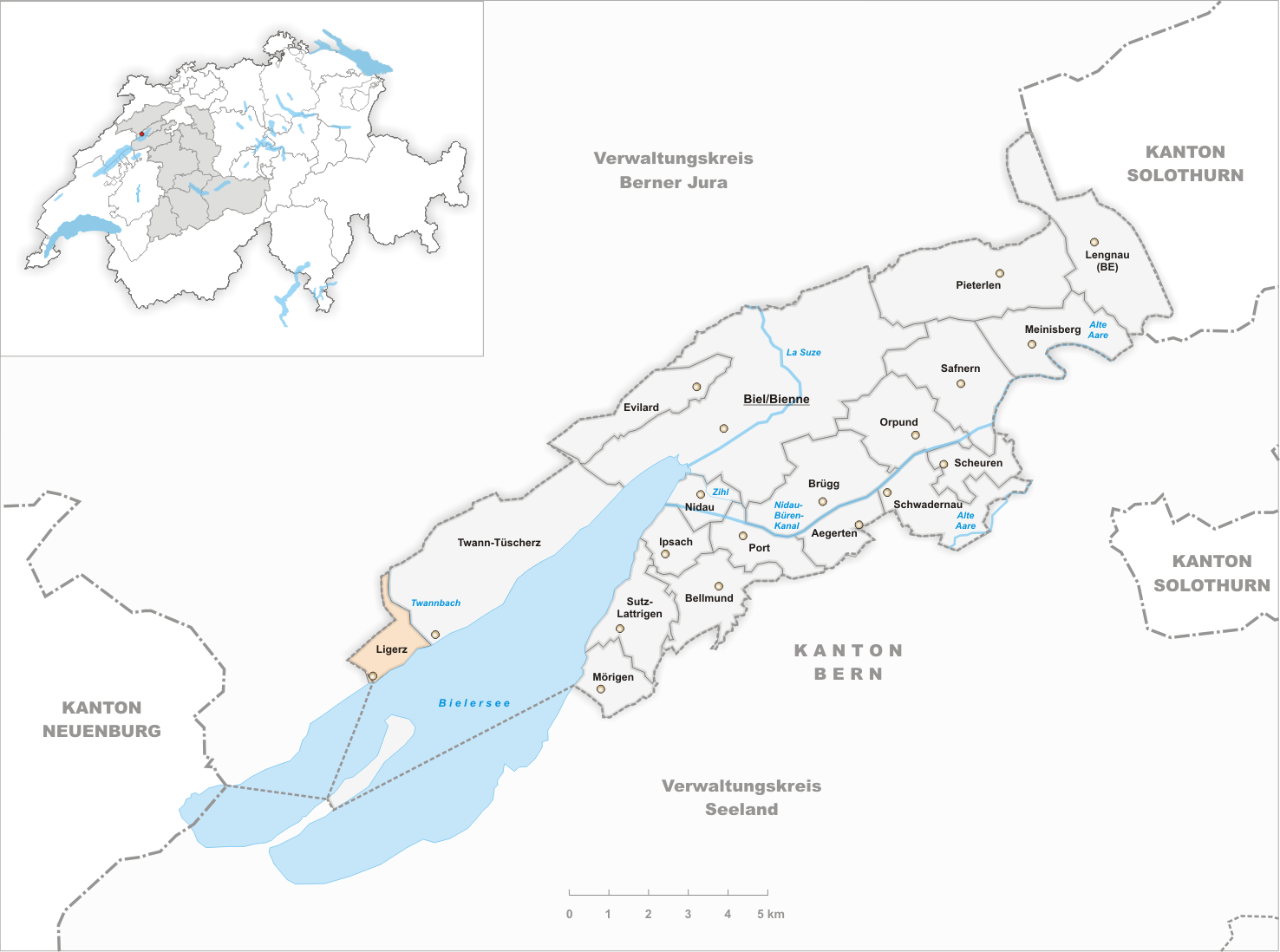 Municipality Ligerz